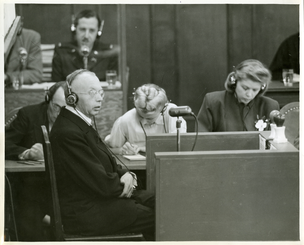 Prosecution witness Friedrich Doebig sits on the witness stand at the Nuremberg Trials.